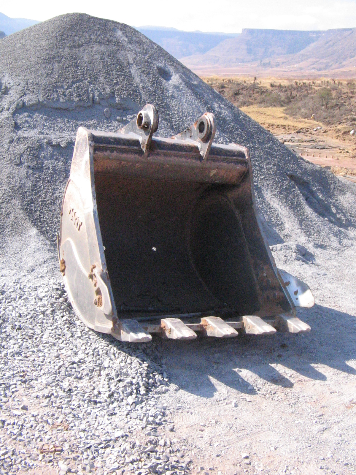 Excavator bucket detached from machine